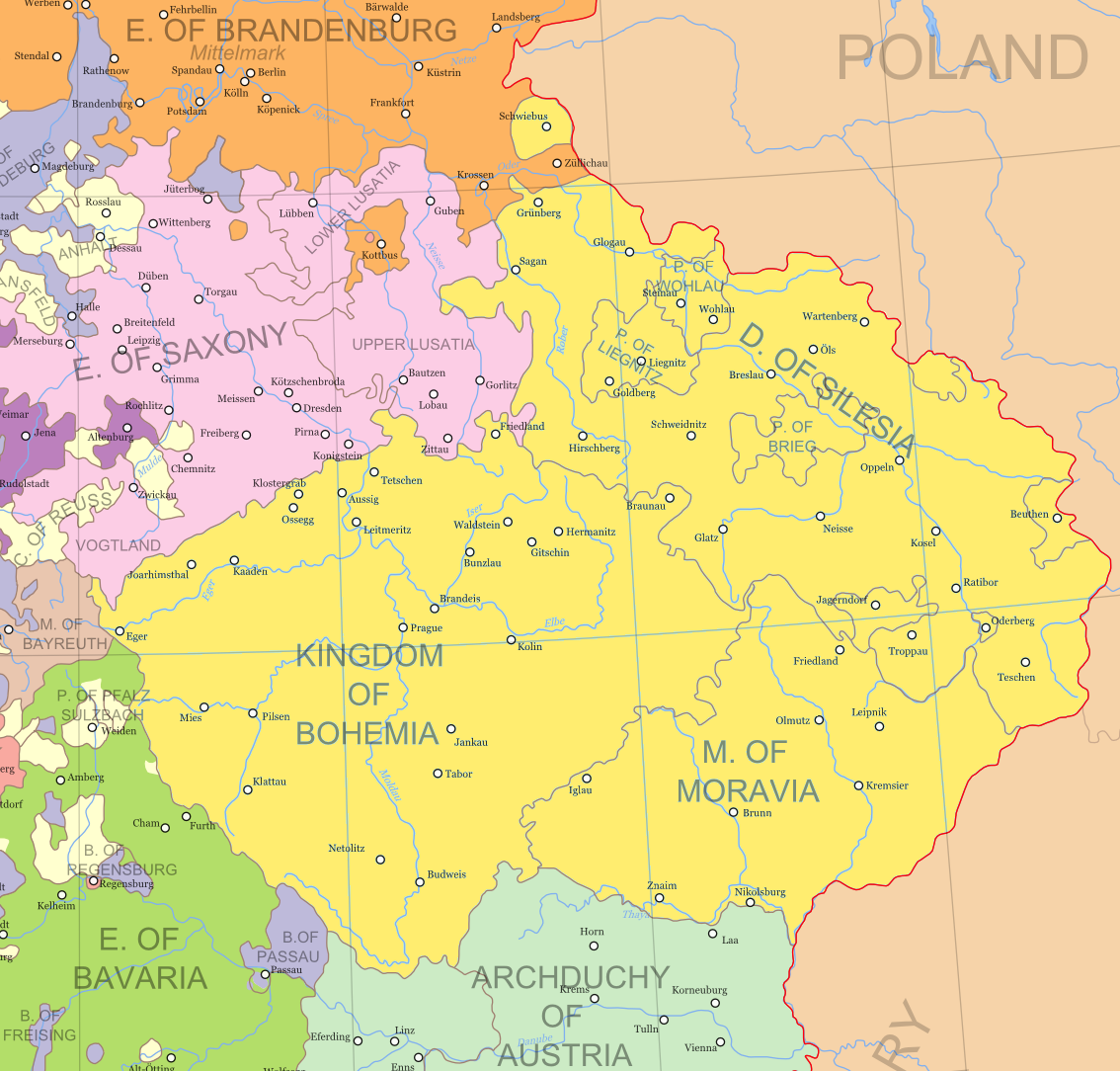 The Crown of Bohemia in 1648 (the area under direct rule of the King of Bohemia) - yellow color. Since 1635 both Lusatias had been ruled by the Duke of Saxony but officially they were part of the Bohemian Crown until 1815 and until that time the King of Bohemia had also the titles of margrave of Upper and Lower Lusatia